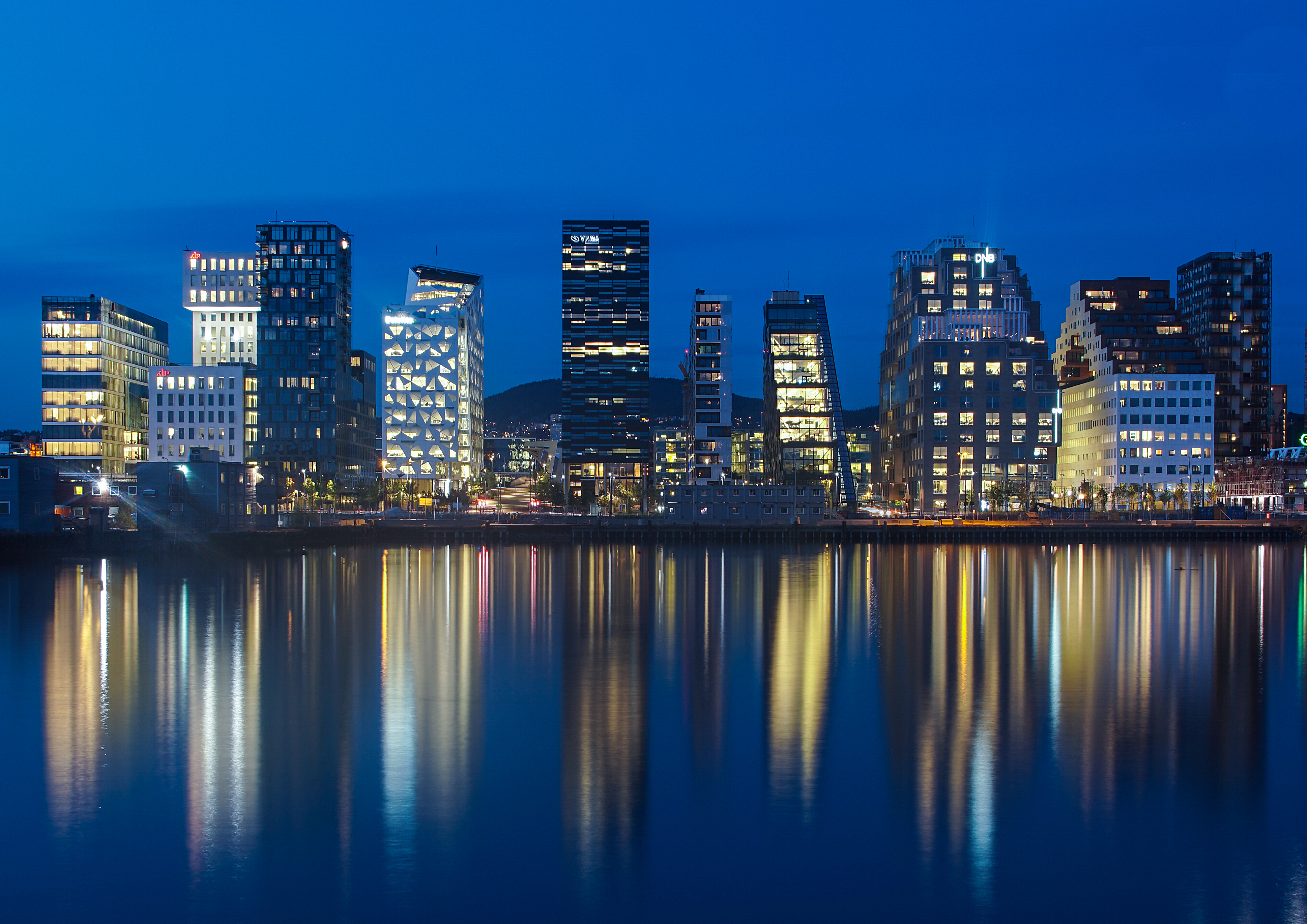 Oslo at night